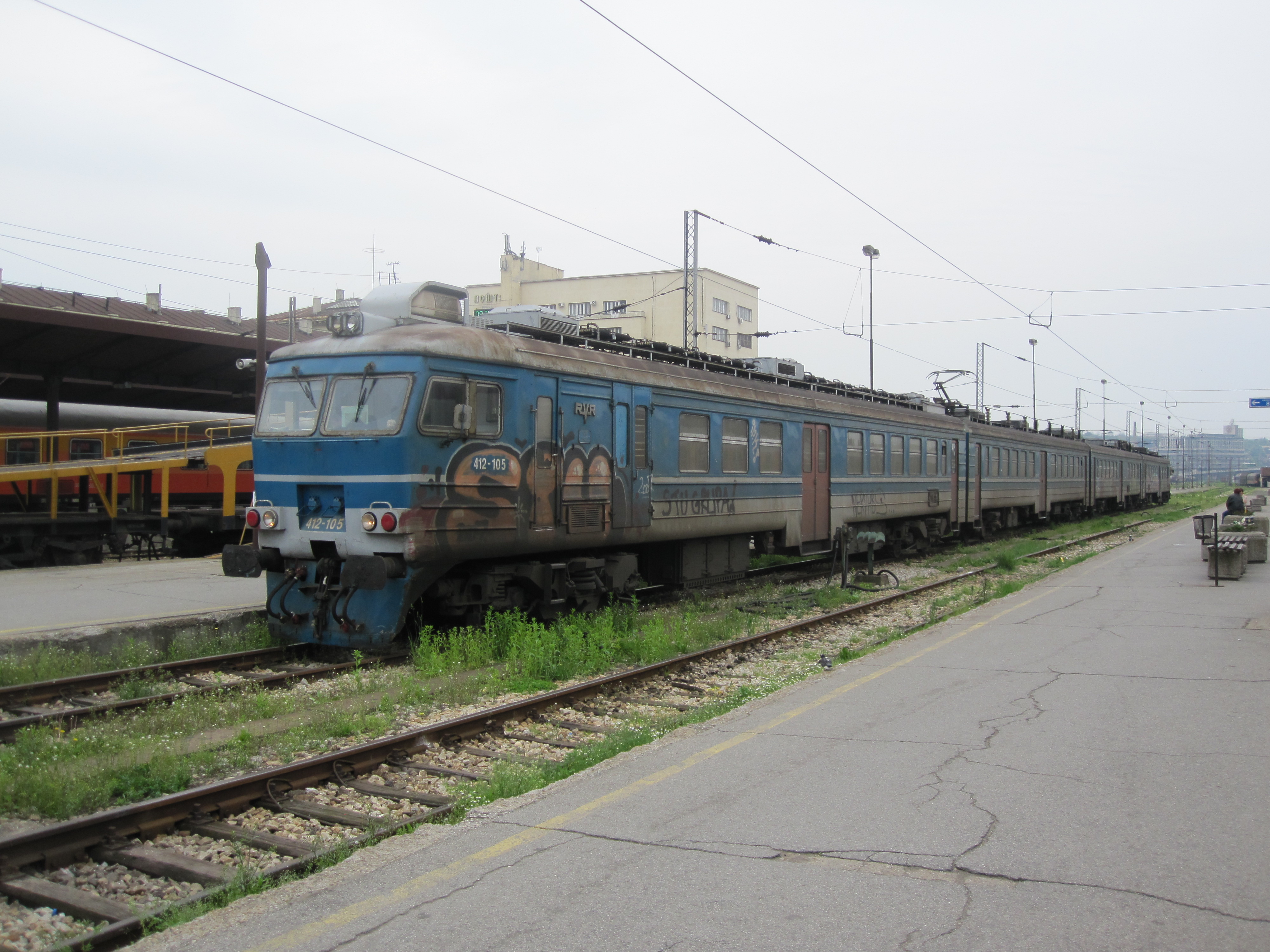 Beograd's main station sees very few EMUs. They normally work suburban services which transit the city on the line via Beograd Centar a couple of kilometers away.